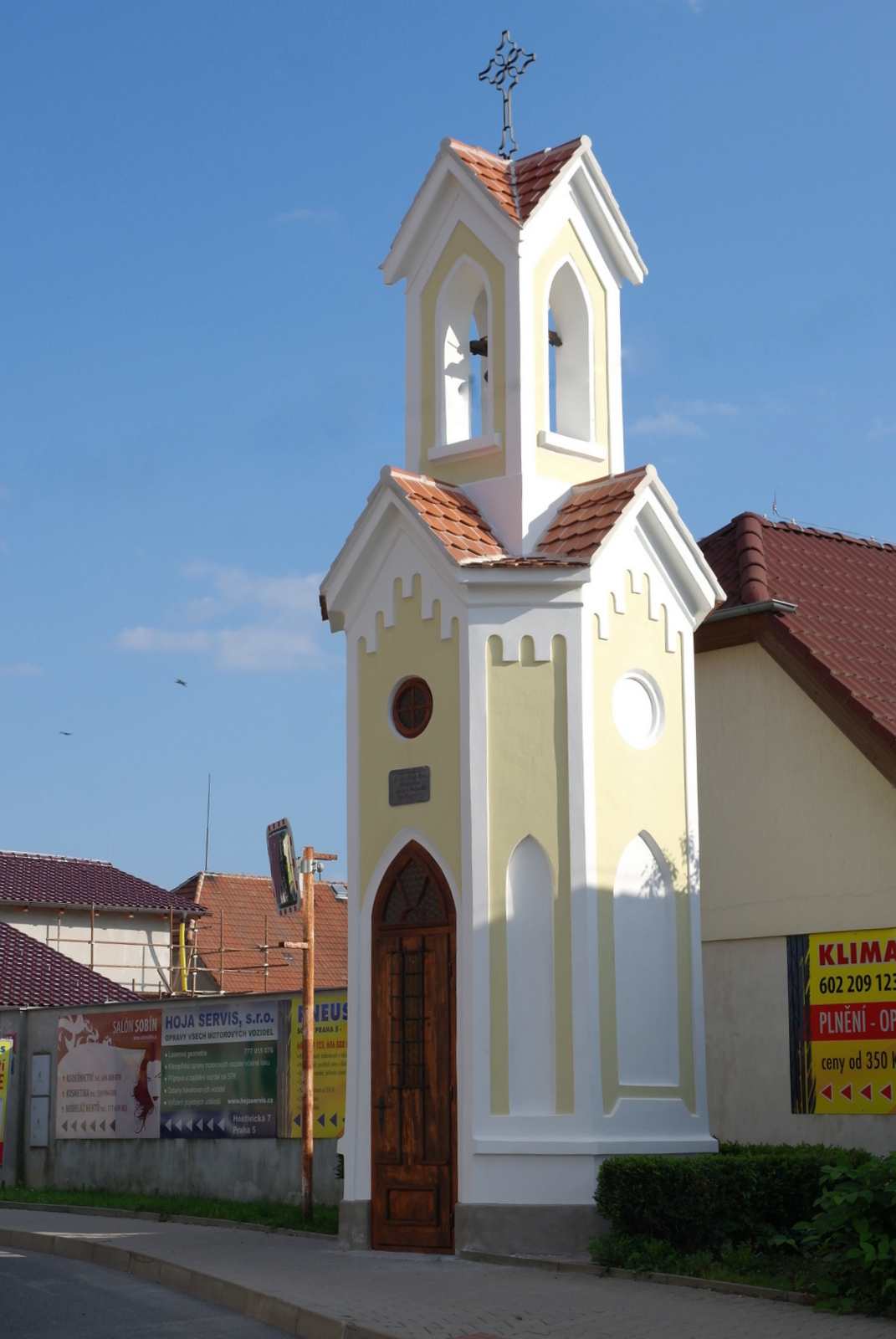 Chapel with a belfry, Hostivická str., in front of houses nos. 2/21 a 20/25, Sobín, Prague.